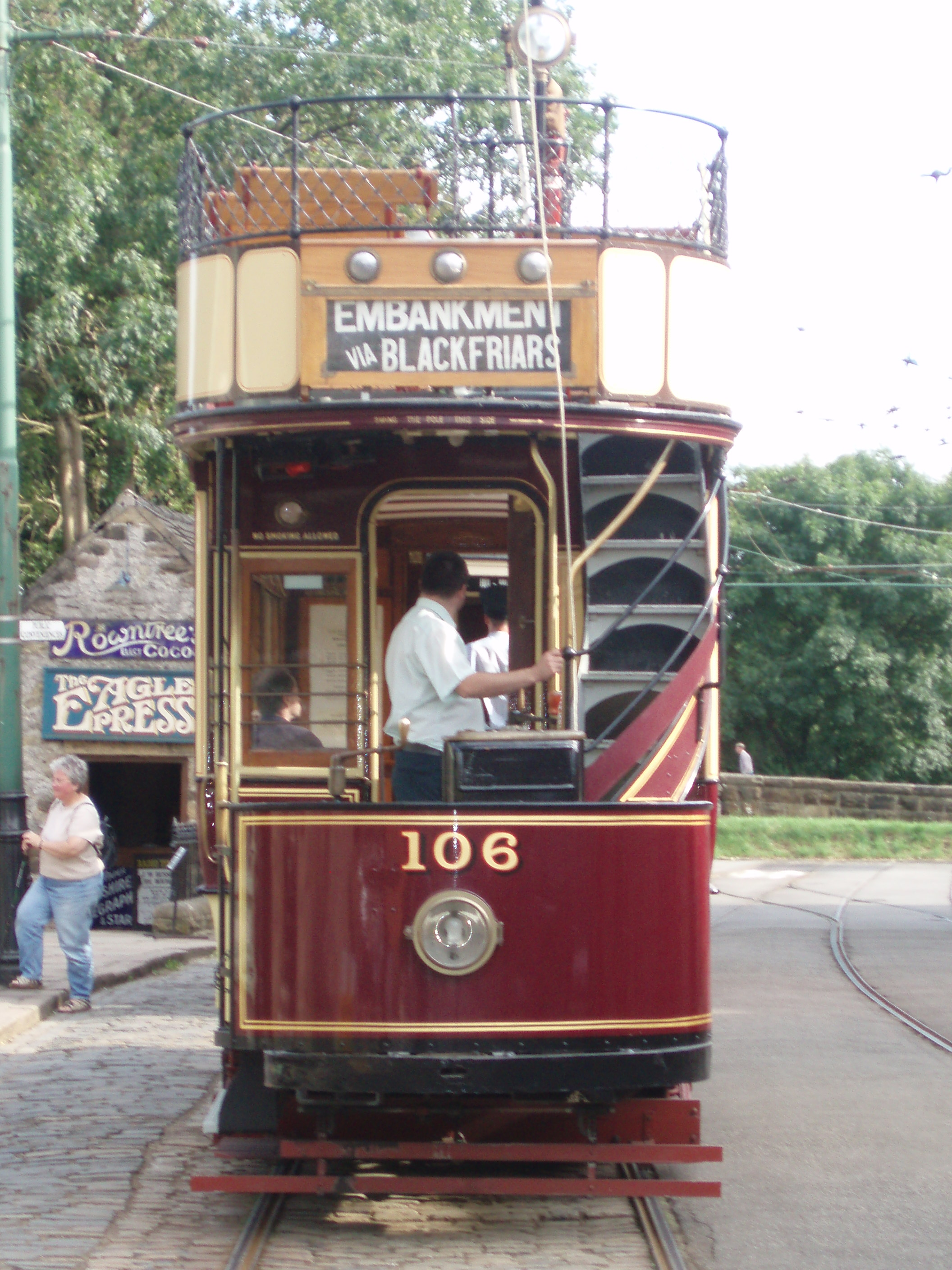 London County Council Tramways 106 at CTE at the National Tramway Museum